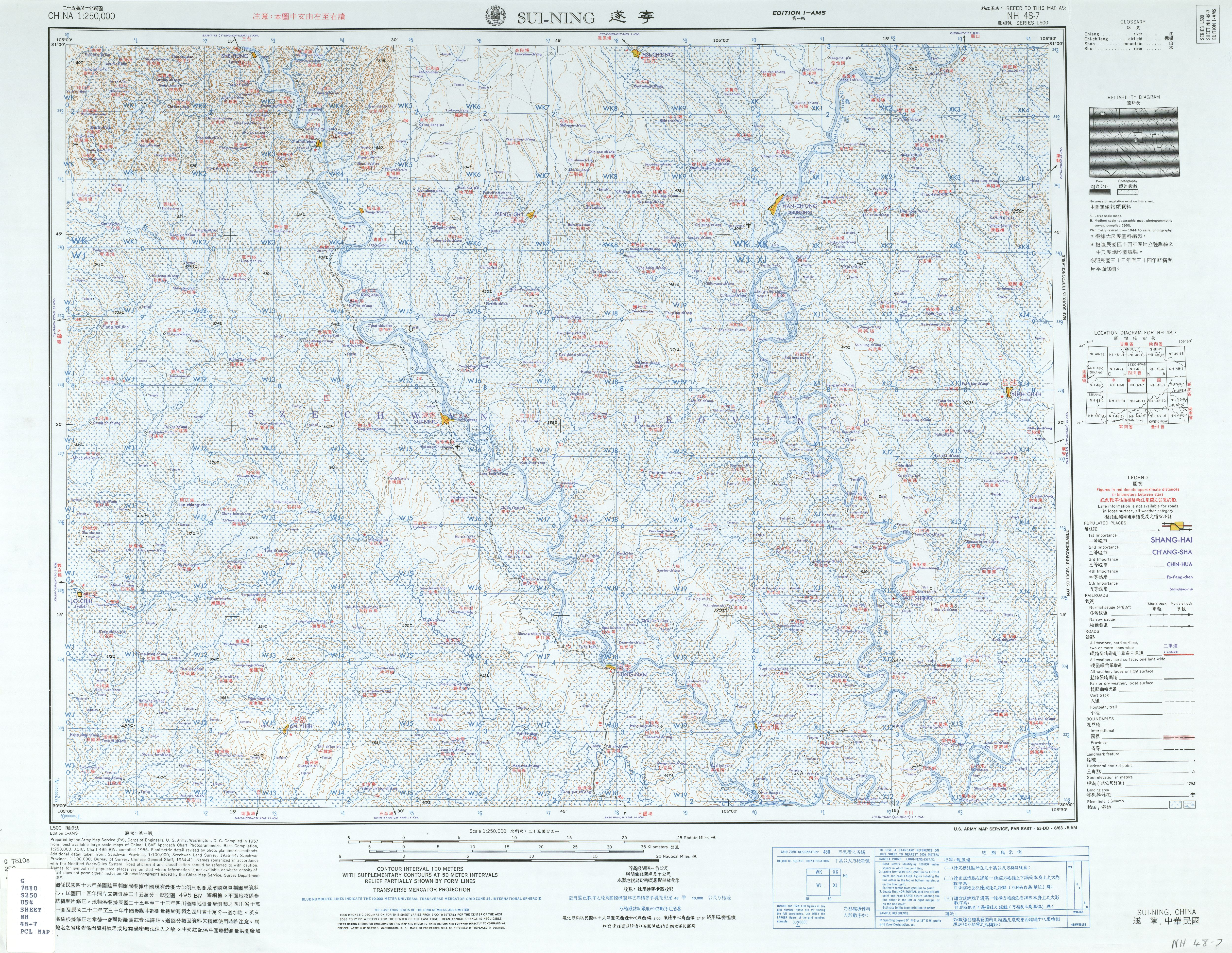 China AMS Topographic Maps